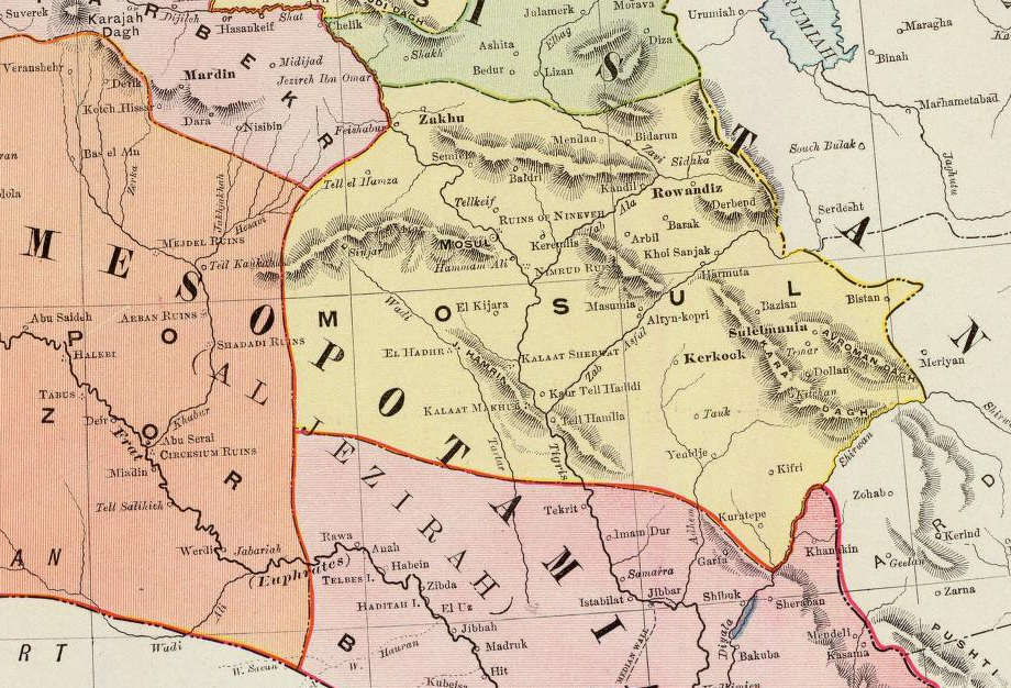 Source: 1897 Rand McNally Atlas